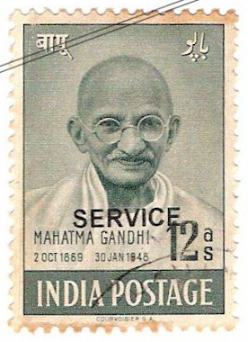 A stamp issued in 1948 for official government business only Source: ebay, May 2007